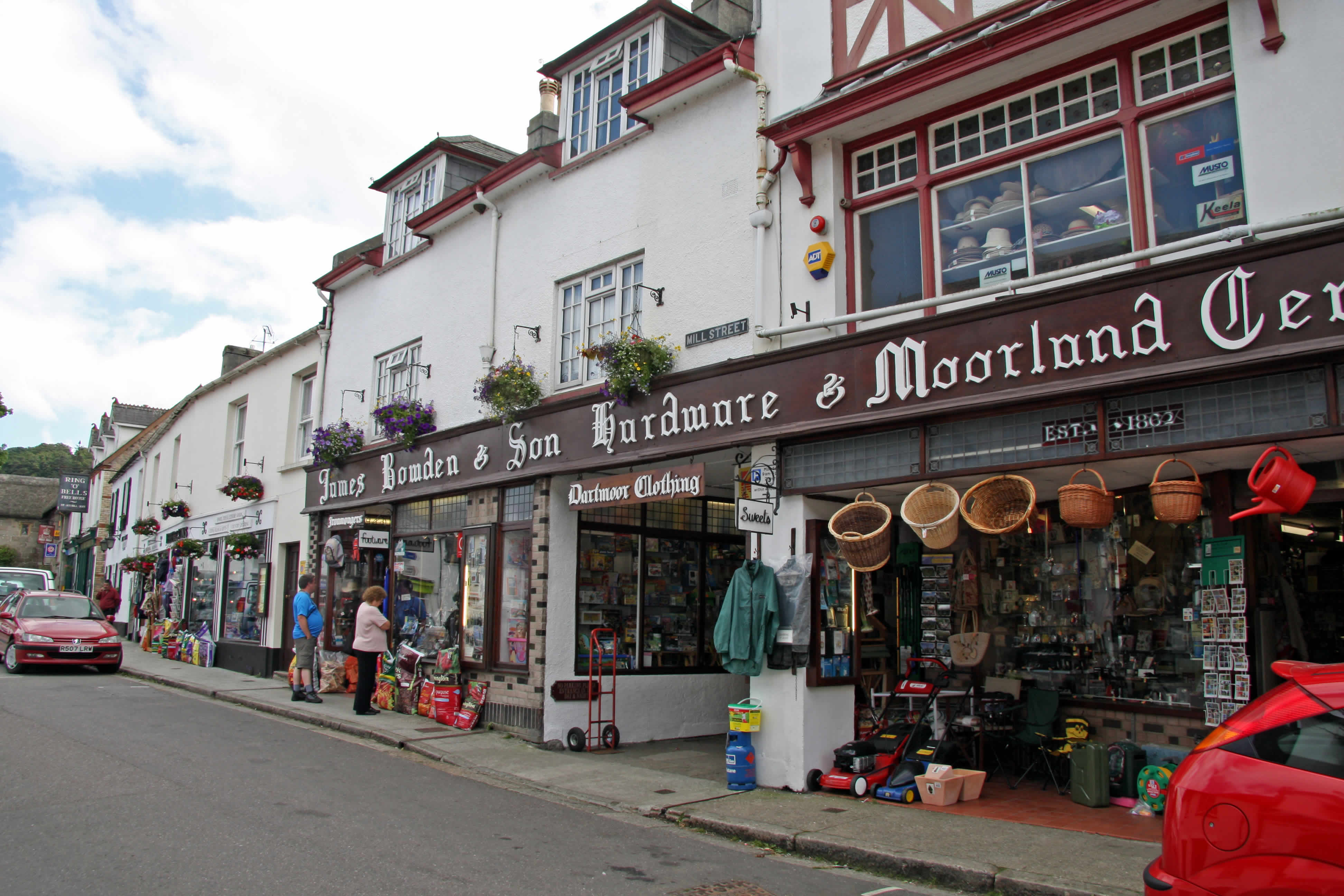 Inside you'll find a warren of little rooms piled high with treasures - worth a trip to the town just to see them. The word is that if they don't have what you're looking for, they'll get it - anything!